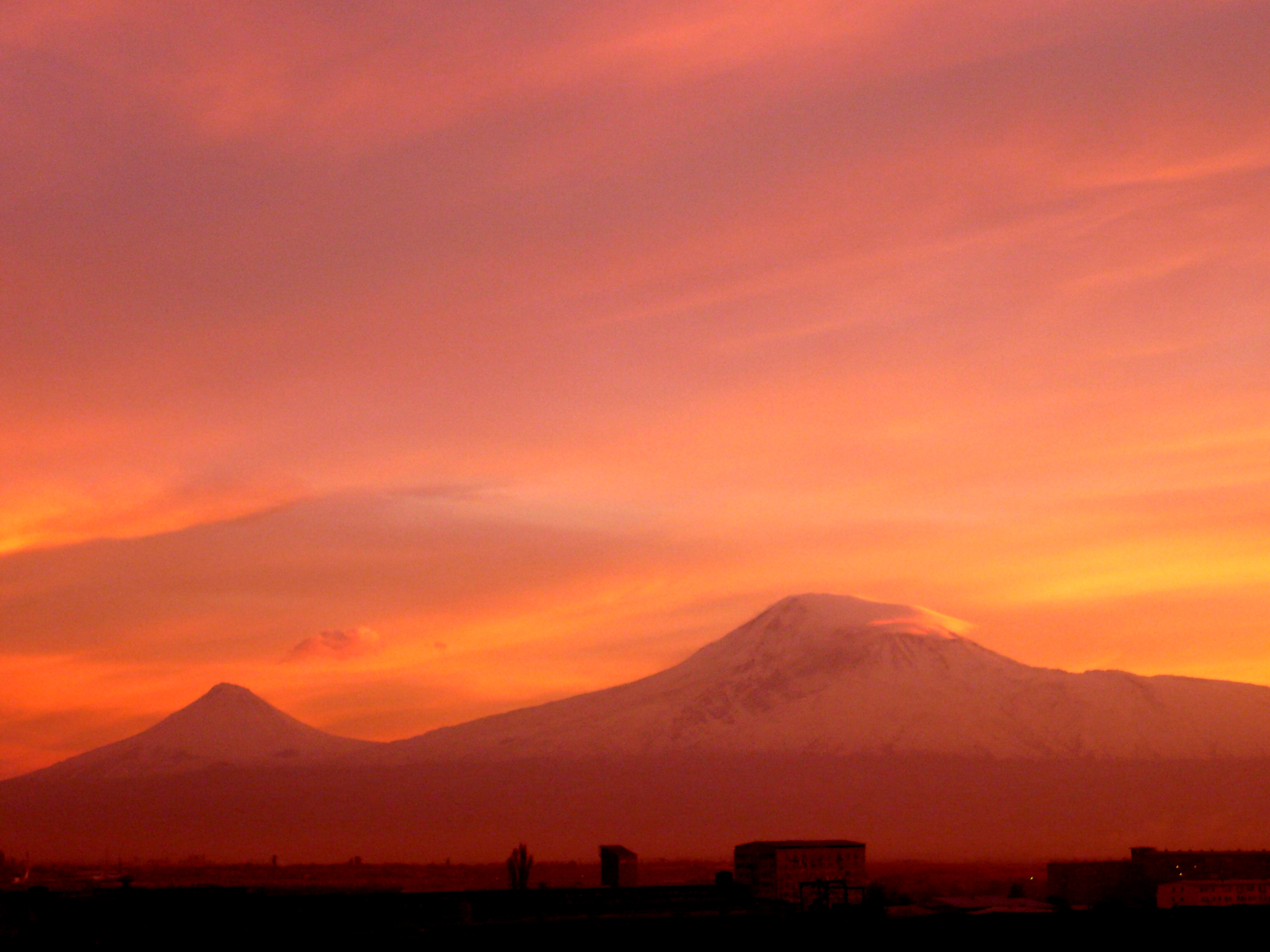 Ararat at sunset